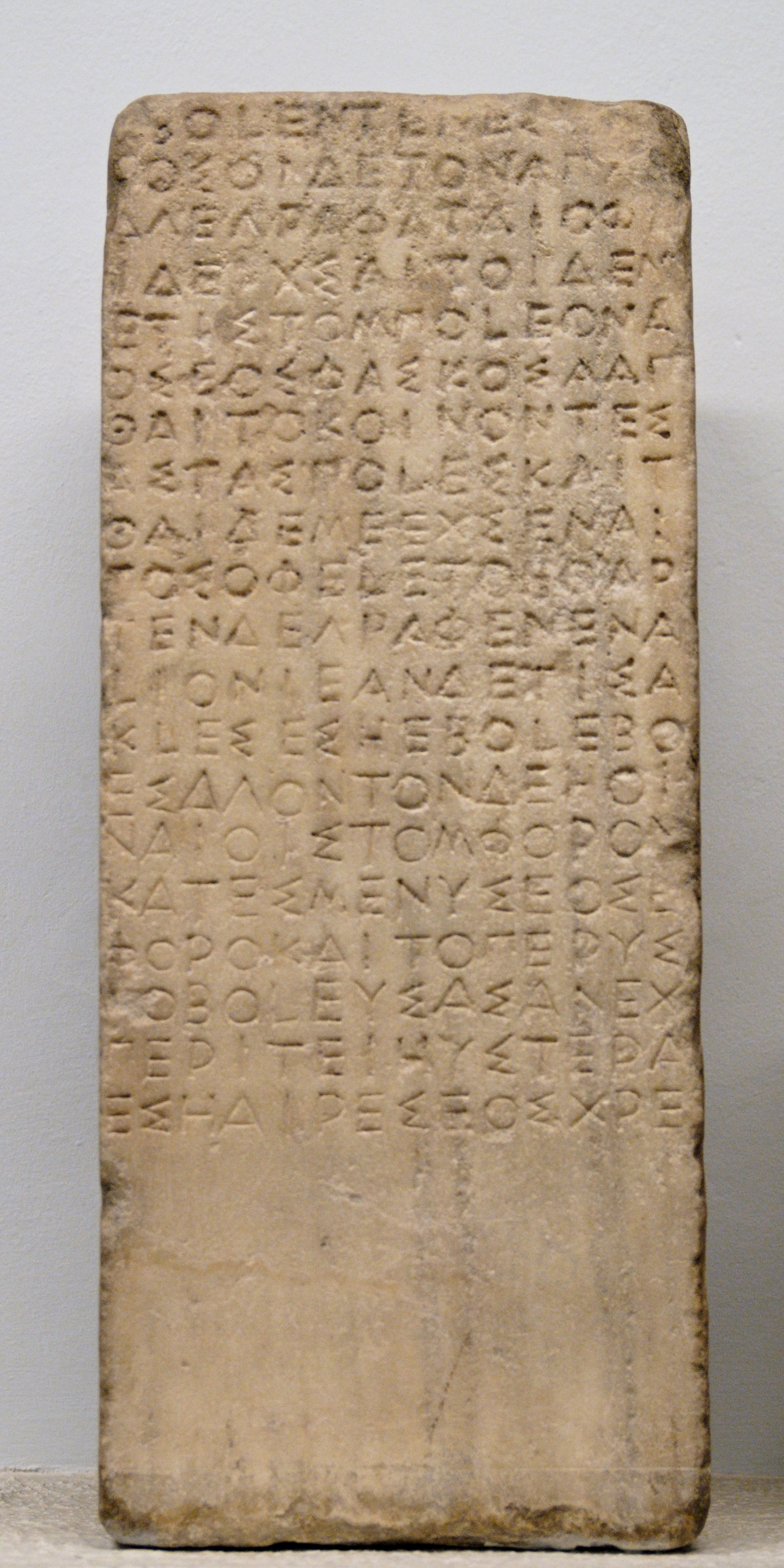 Fragment of an Athenian decree concerning the collection of the tribute from the members of the Delian League, probably passed in the spring of 447 BC.